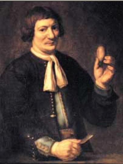 Portrait of Jan de Doot and the kidney stone he removed with his own knife from his own kidney with the help of his brother in the 17th century. This story is described in the book Observationes Medicae by Nicolaes Tulp.